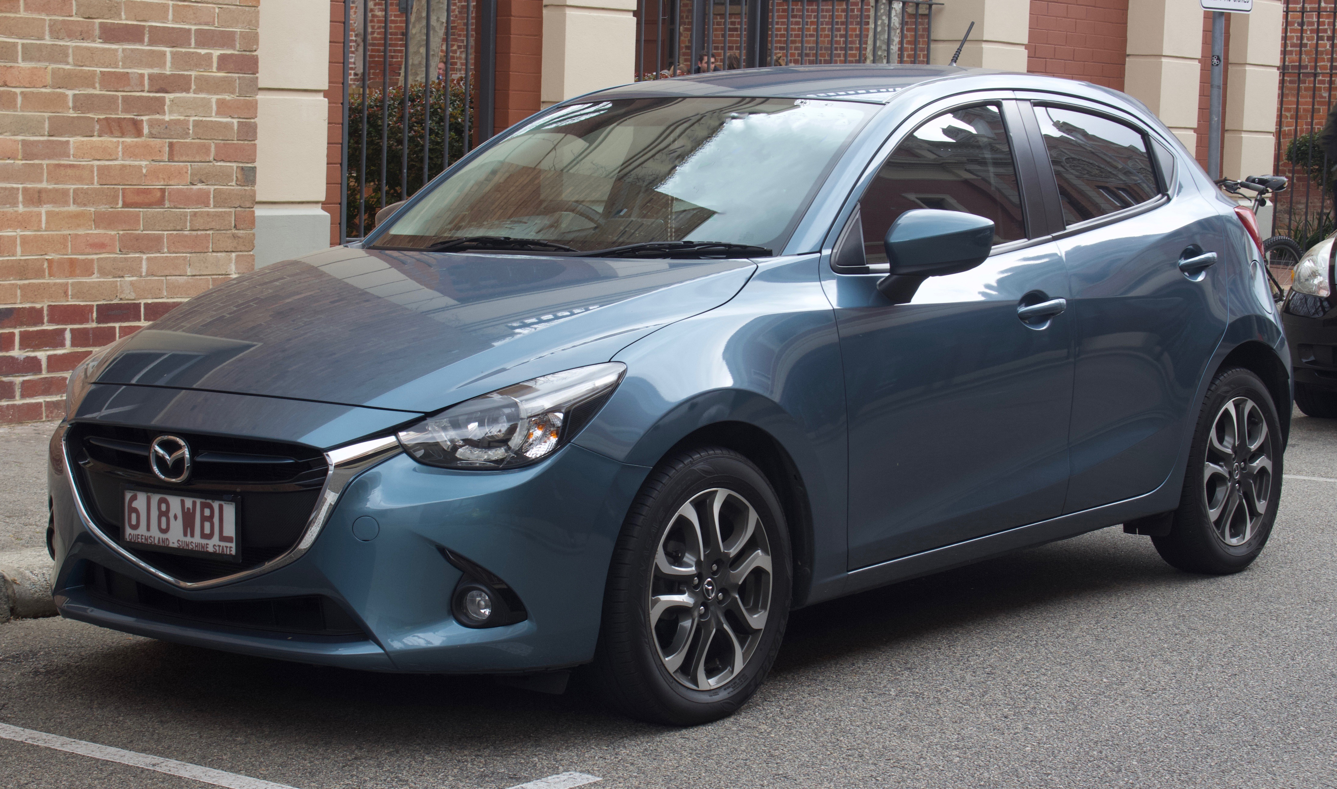 2015 Mazda2 (DJ) Genki hatchback. Photographed in Fremantle, Western Australia, Australia.